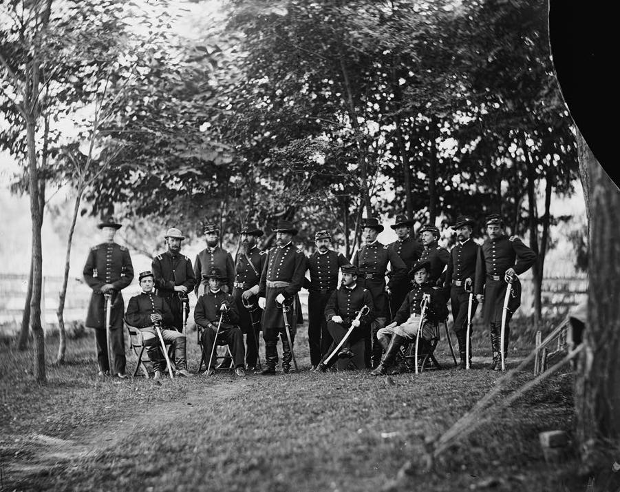 Culpeper, Virginia. Gen. William H. French and staff.